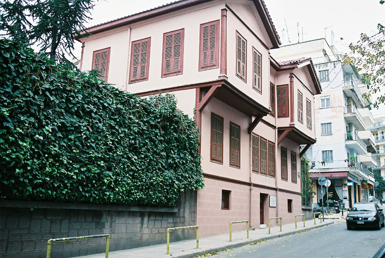 The Turkish Consulate-General in Thessaloniki. The house is regarded as the birthplace of Mustafa Kemal Atatürk, the founder of the Republic of Turkey. Taken in 2005.